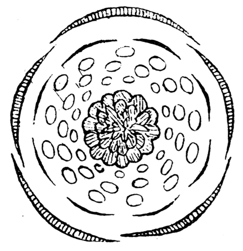 Flower diagram of Adonis autumnalis